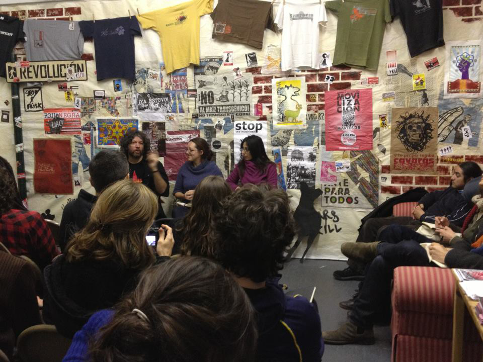 La Persistencia de los Sueños / The Persistence of Dreams retrospective of the work of Mexican collective Sublevarte at the Interference Archive in Gowanus, Brooklyn, New York in November 2012.